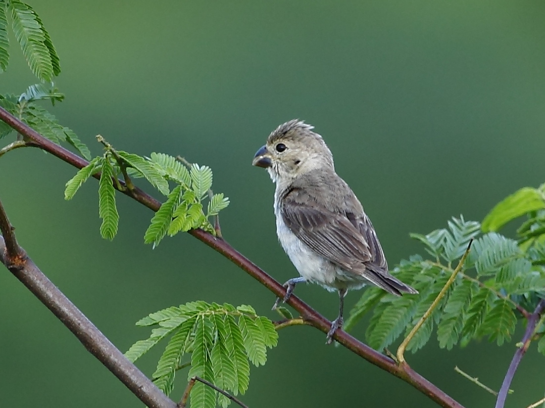 White-throated Seedeater (female); Potengi, Ceará, Brazil